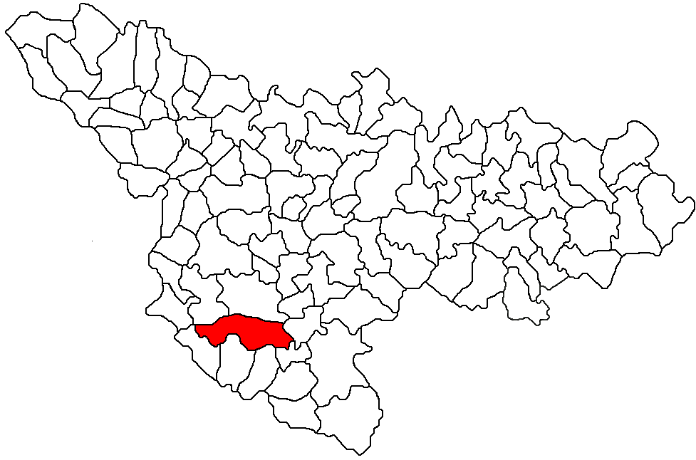 Locator map of the commune of Ghilad in Timiș County Romania